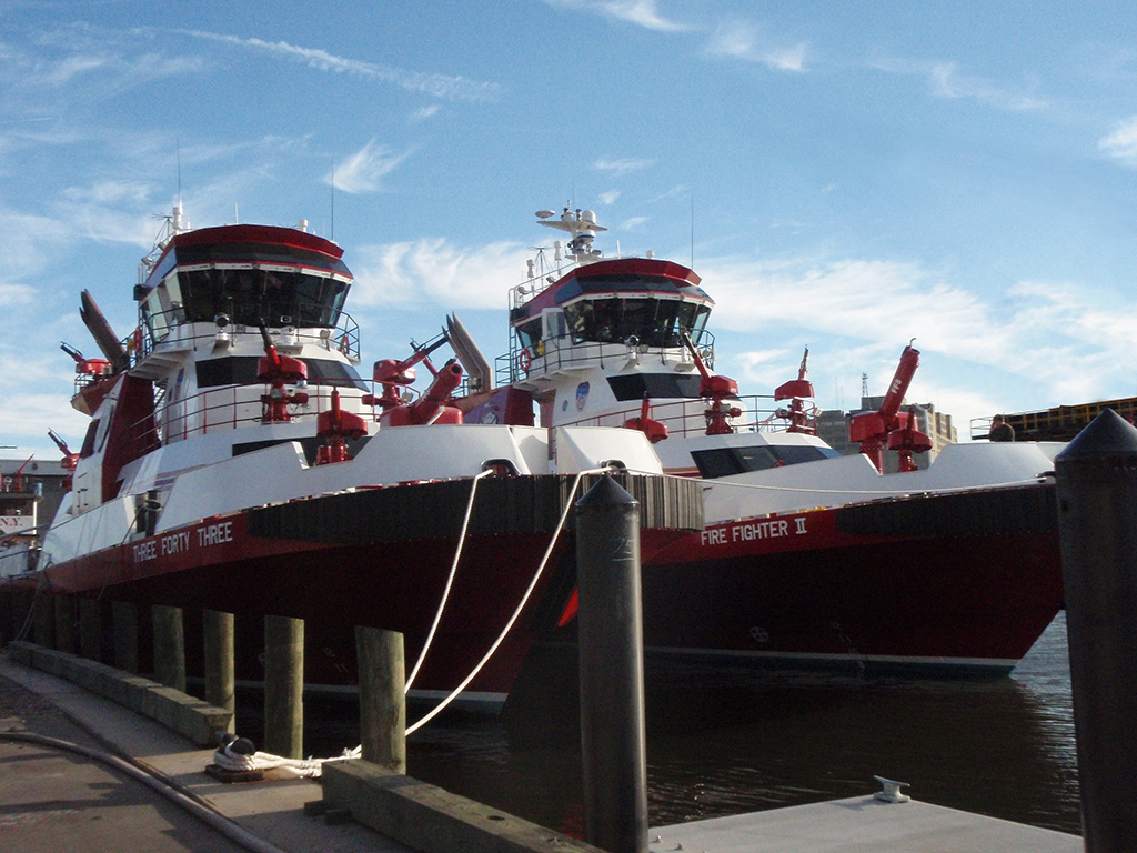 Three Forty Three and FireFighter II. Two RAnger 4200 Class Fireboats for New York City; 13,500 tonnes/hr. pump output